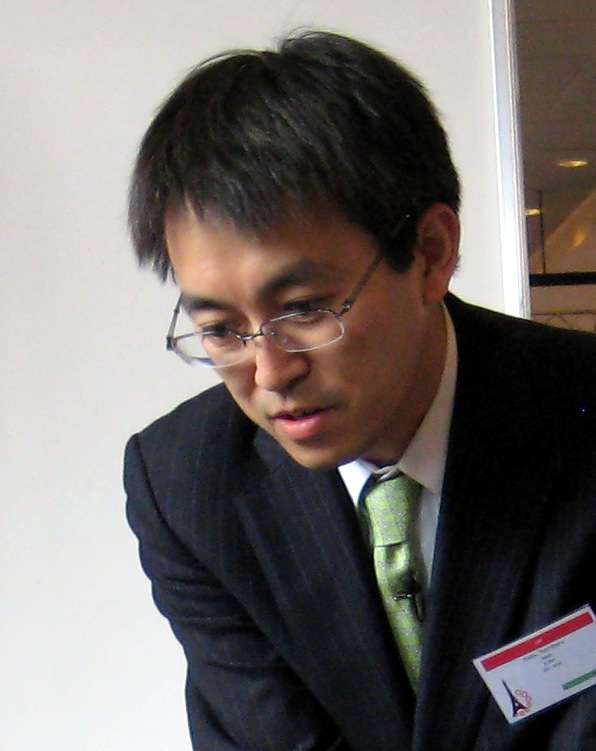 Habu at ISF 2011